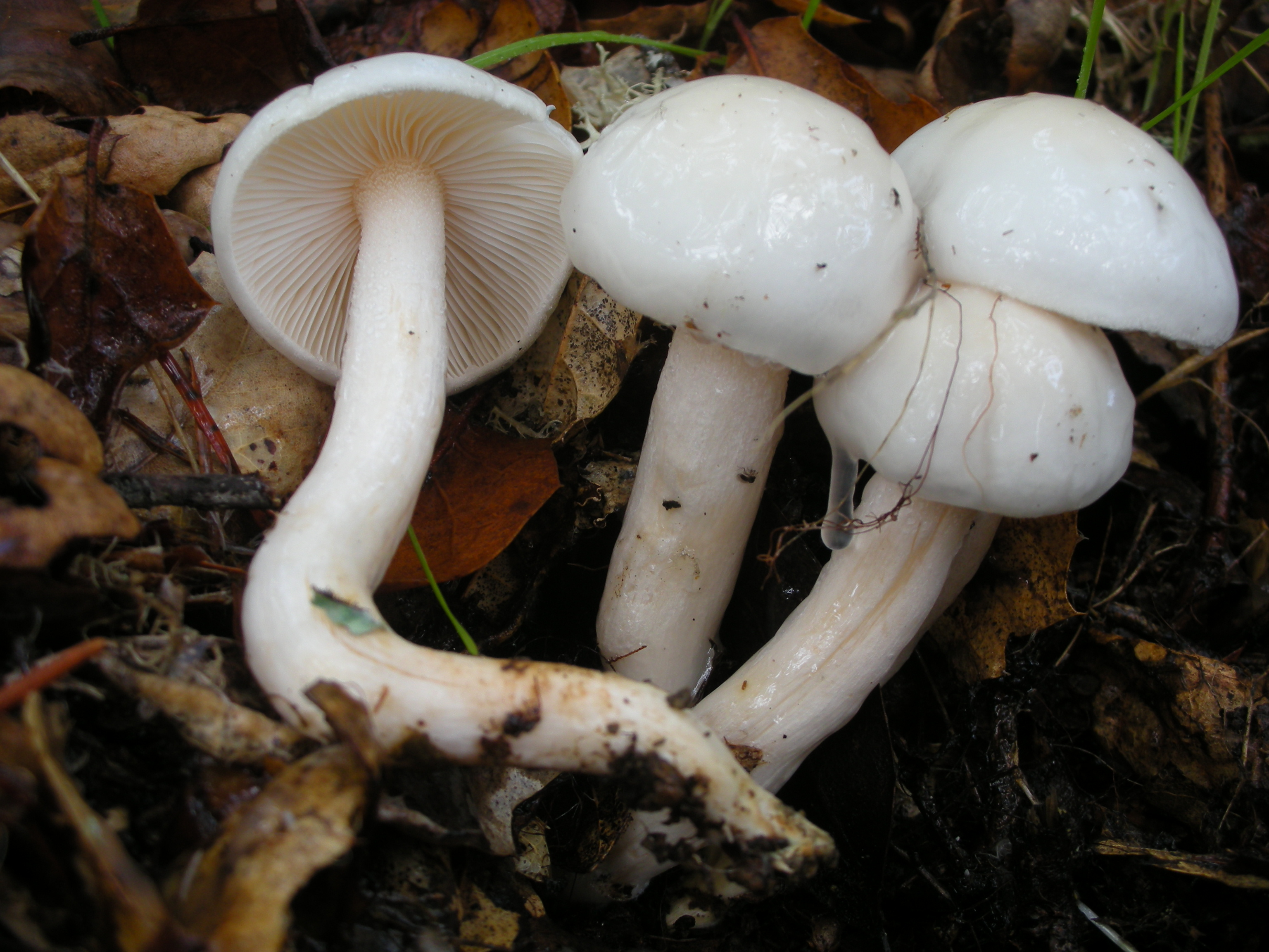 Hygrophorus eburneus, San Geronimo, California, USA.